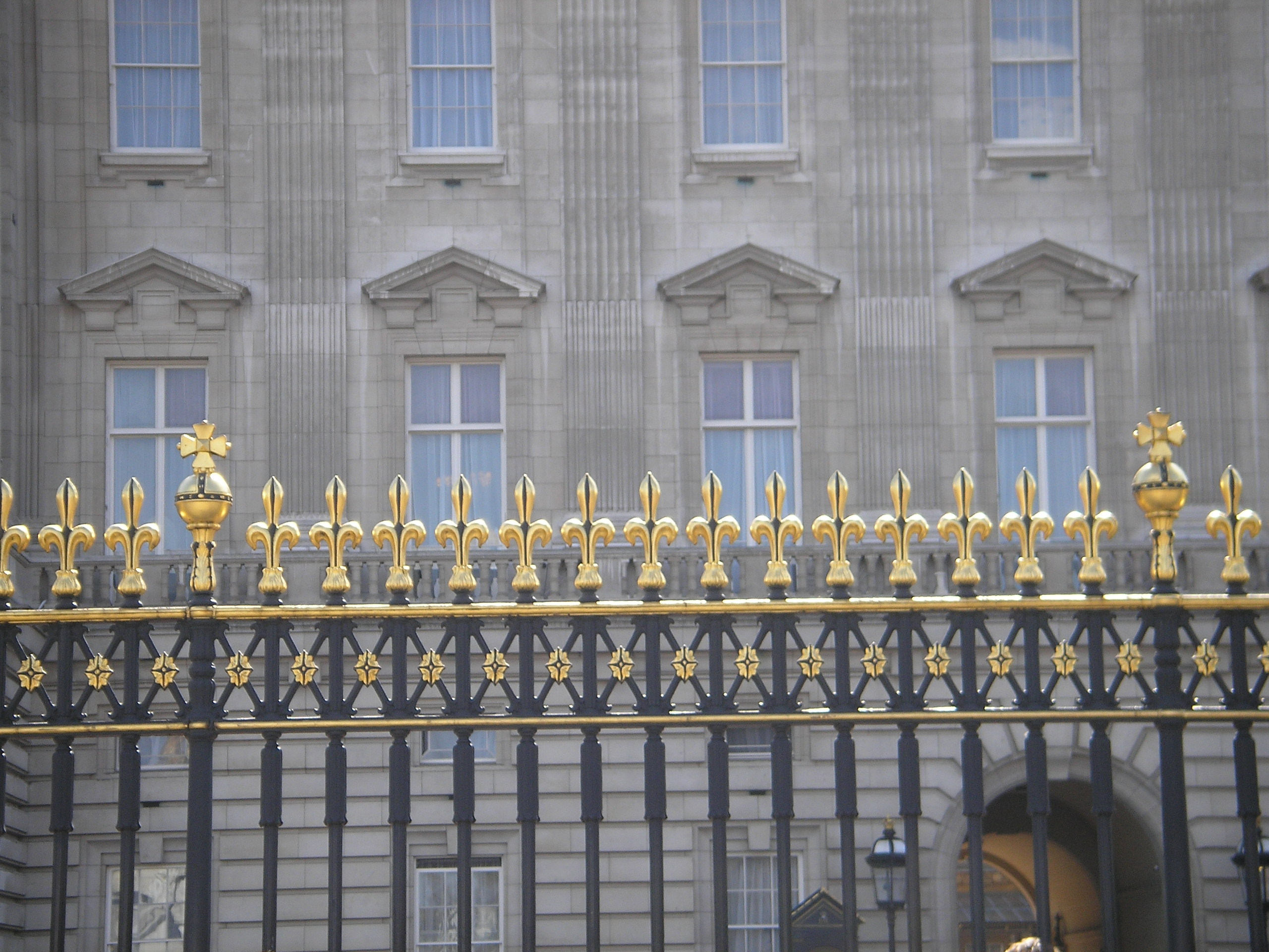 Fence with fleur-de-lis on Buckingham Palace in London.